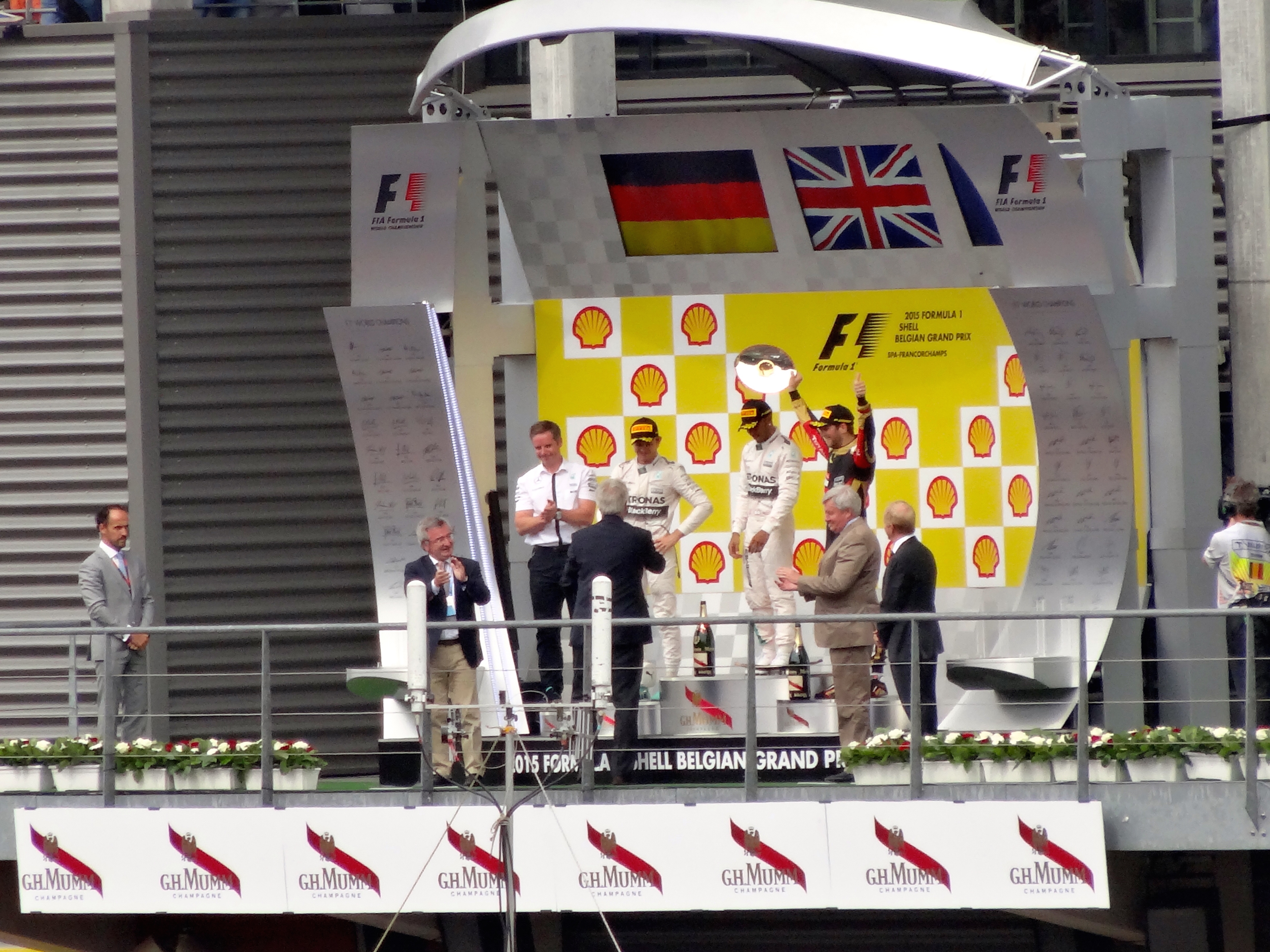 Grosjean third in Spa